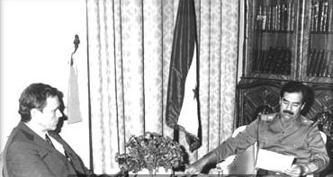 Richard W. Murphy and Saddam. Richard Murphy, U.S. Assistant Secretary of State visiting with Saddam Hussein in 1986 and explaining Iran-Contra Scandal to him.